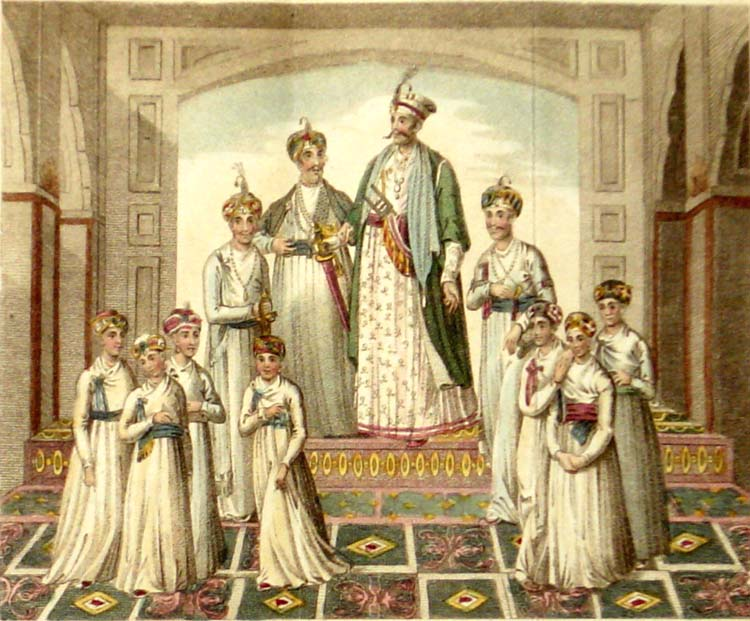 "Hand-colored engraving, SUJAH DOWLAH, VIZIR OF THE MOGUL EMPIRE, NAWAB OF OUDE AND HIS TEN SONS, by Frederic Shoberl